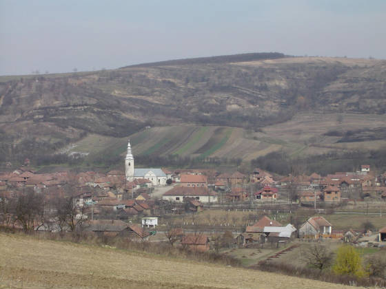 author: Zoltan BALINT source: Zoltan BALINT use: free to use for any purpose; if you have doubts, ask the photographer: (Zoltan BALINT)